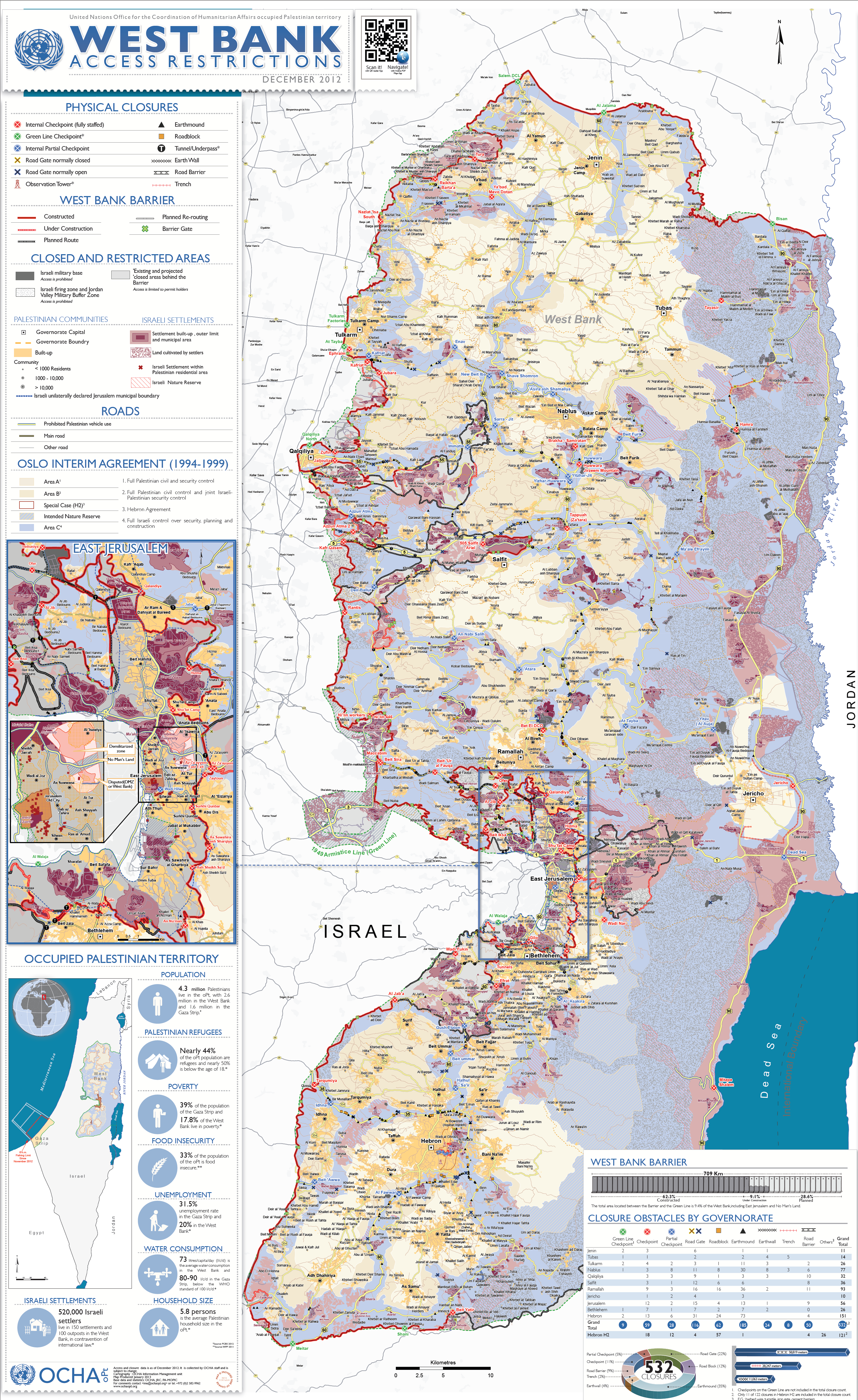 Detailed map of access restrictions in the West Bank. Different shades of brown indicate areas with full Palestinian civil and security control (A) and areas with Palestinian-Israeli joint control (B), while blue are areas under the direct control of the Israeli security (C). Orange shows Arab communities, various shades of red show Israeli settlements. Map includes closed and restricted areas, barriers and road checkpoints.